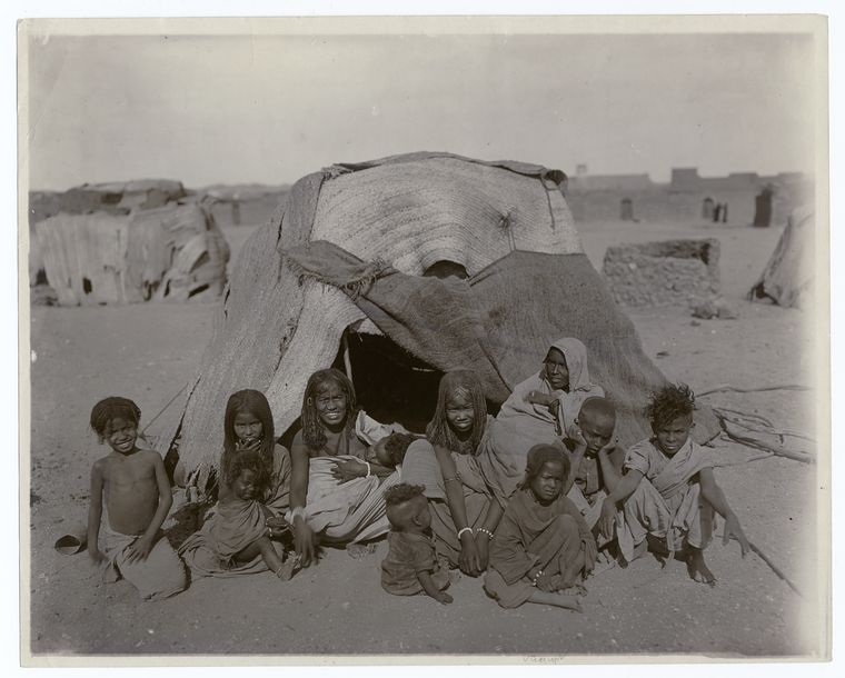 Digital ID: 88455. 1860s-1920s Notes: Title derived from handwritten caption on back of photograph. Wadi Halfa is in present-day (2005) Sudan. Source: [Photographs and prints of Egypt and Syria.] (more info) Repository: The New York Public Library. Photography Collection, Miriam and Ira D. Wallach Division of Art, Prints and Photographs. See more information about this image and others at NYPL Digital Gallery. Persistent URL: Rights Info: No known copyright restrictions; may be subject to third party rights (for more information, click here)